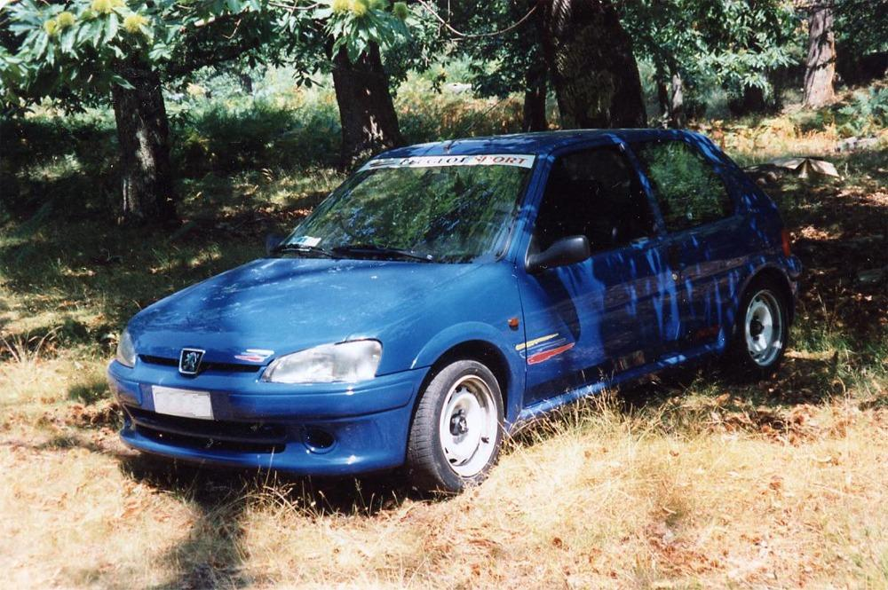 Blue Peugeot 106 Rallye